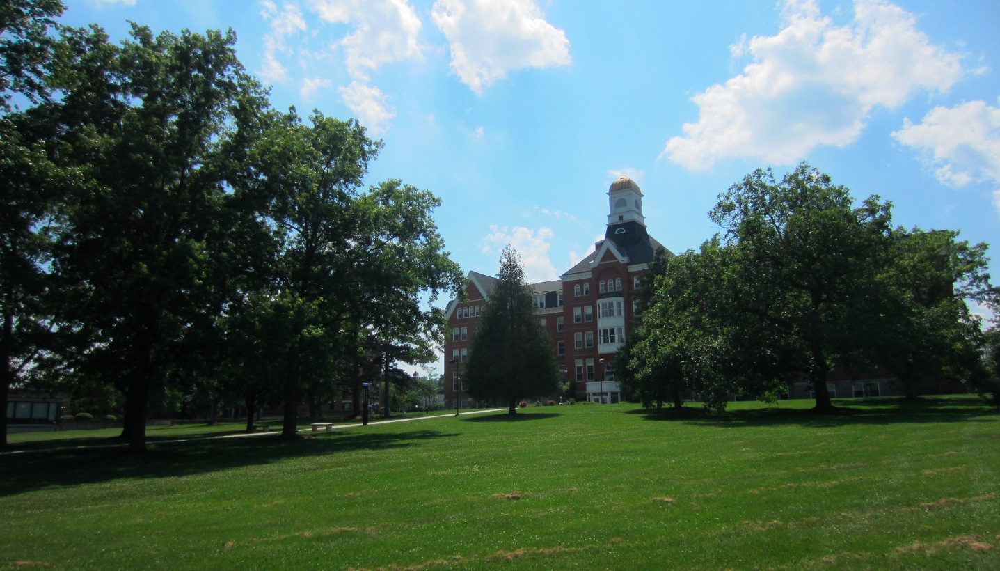 Ball Hall and lawn at Keuka College, New York